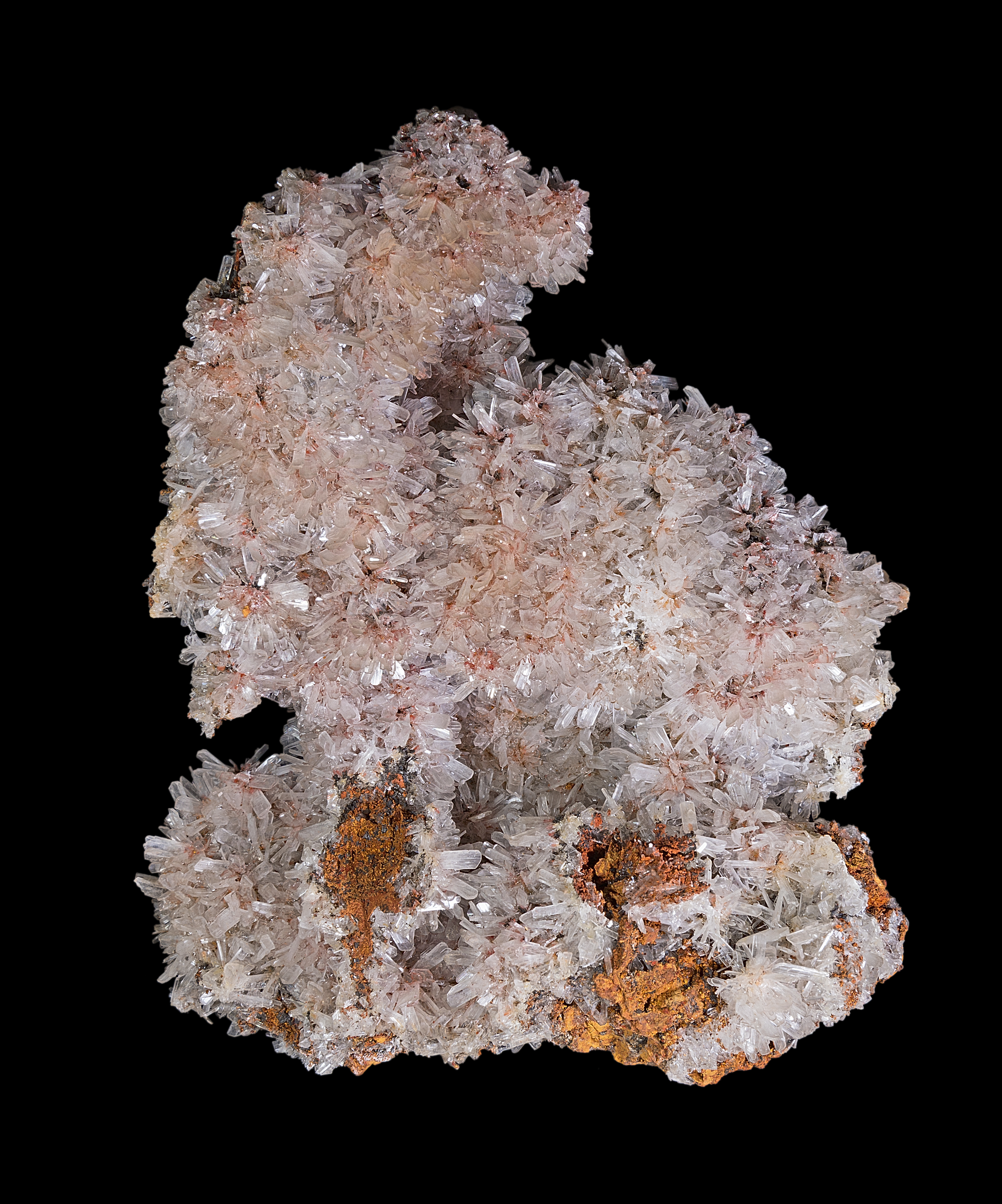 hemimorphite - Ojuela Mine, Mapimí, Mun. de Mapimí, Durango, Mexico - (21 × 12 cm)